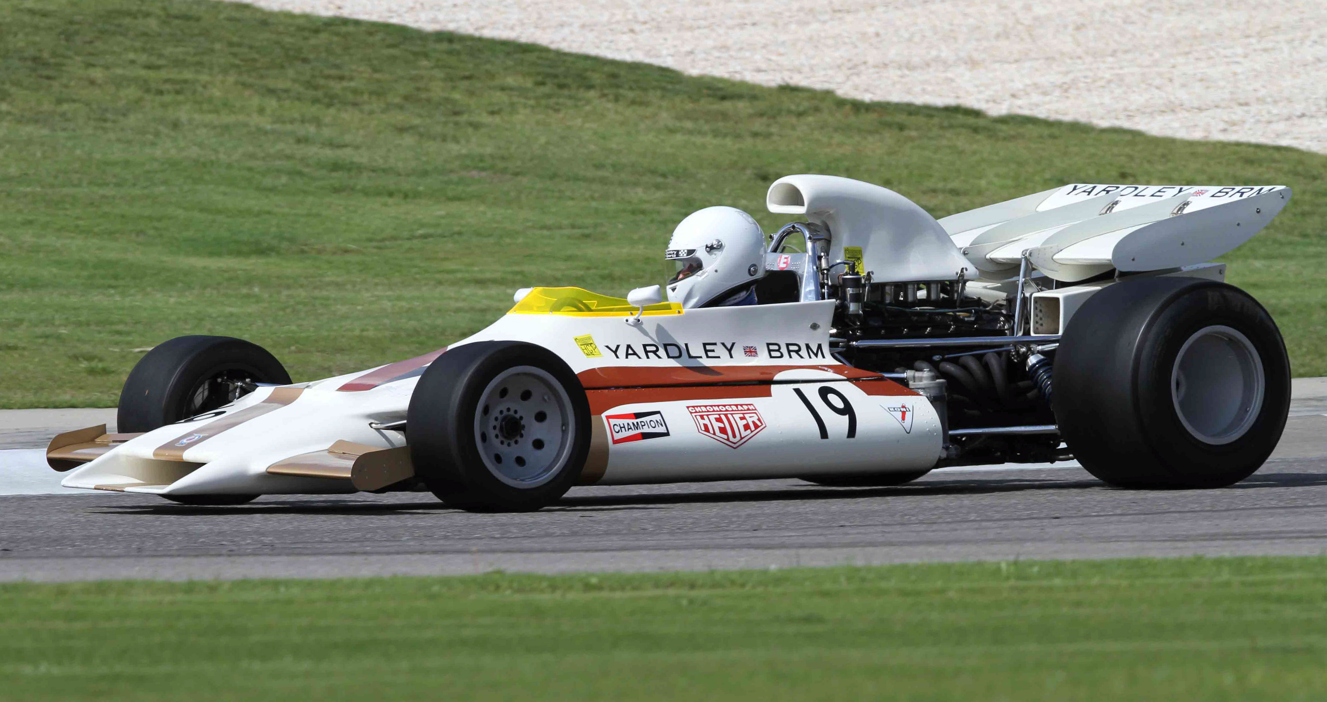 BRM P160 at Barber Motorsports Park, 2010